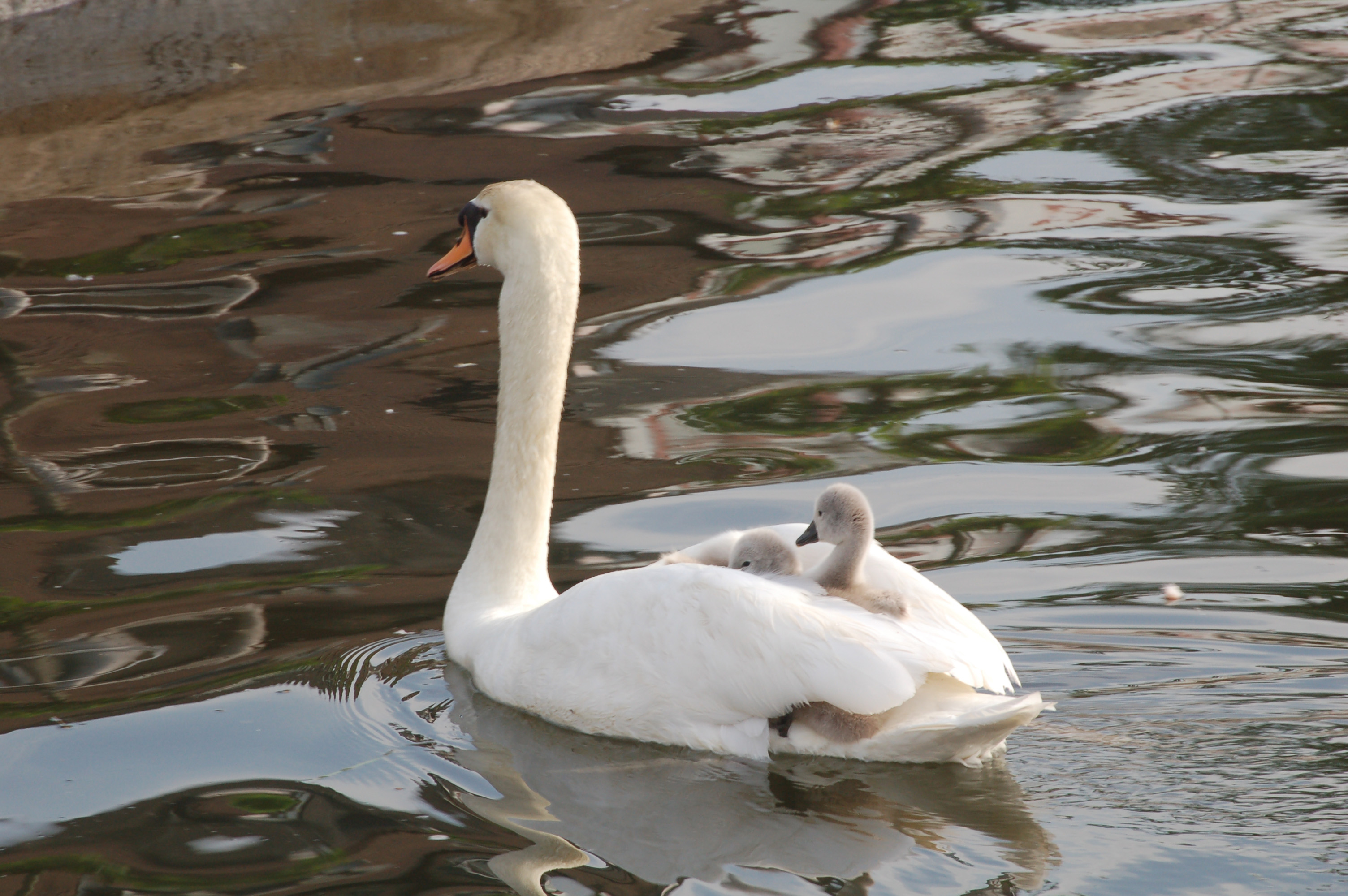 Mute swan (Cygnus olor) with cygnets